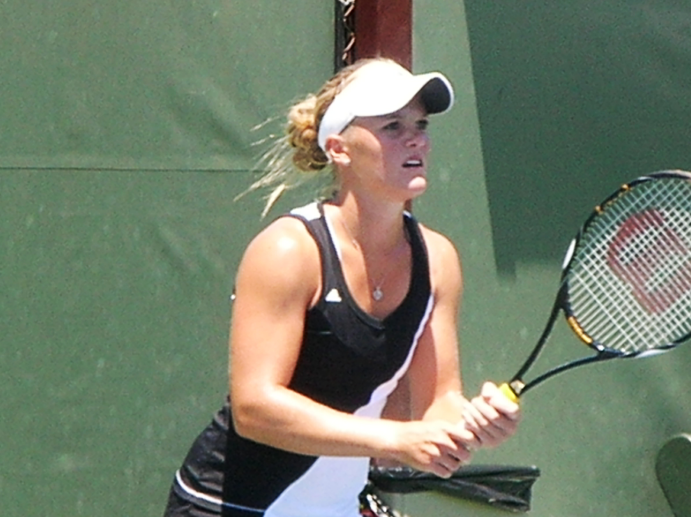 Melanie Oudin practicing at the Bank of the West Classic at Stanford.